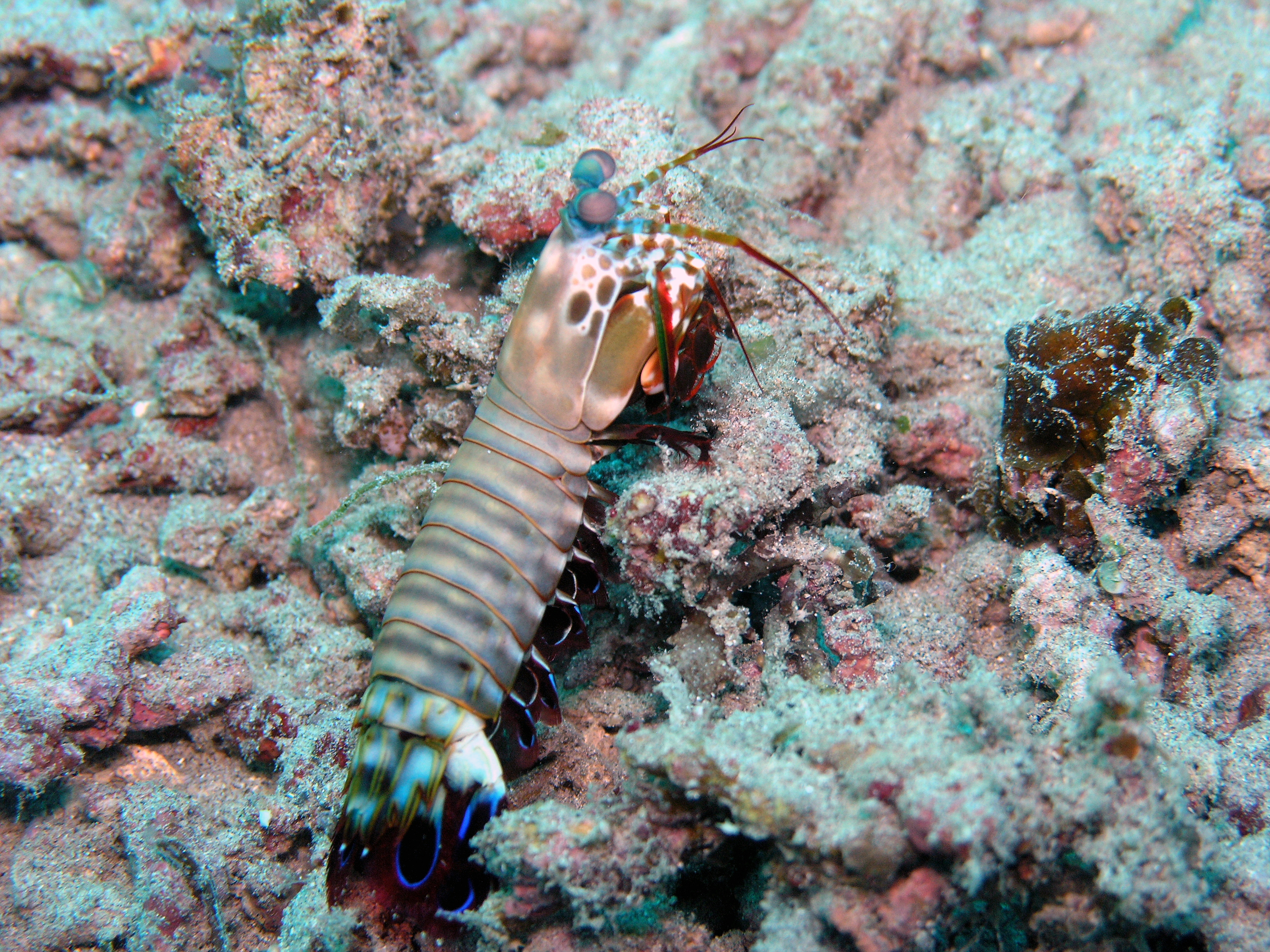 Picture of peacock mantis shrimp. Taken at Tasik Ria house reef, Manado, Indonesia.